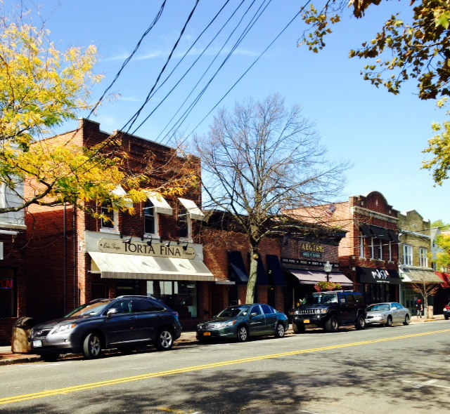 Various businesses and restaurants in Babylon Village